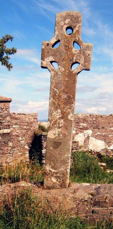 The Cooley Cross in Moville